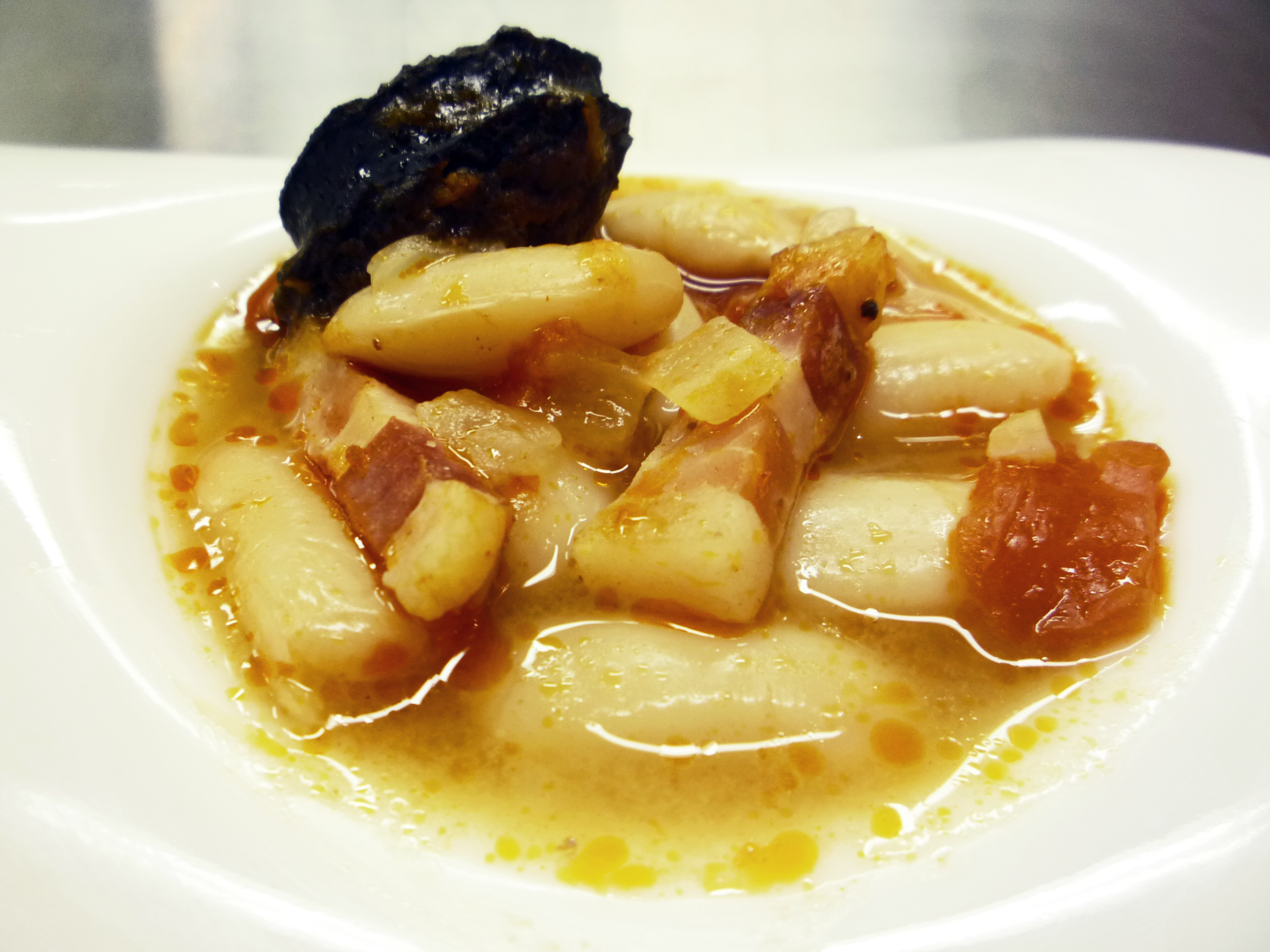 Alubias cocinadas al vacío